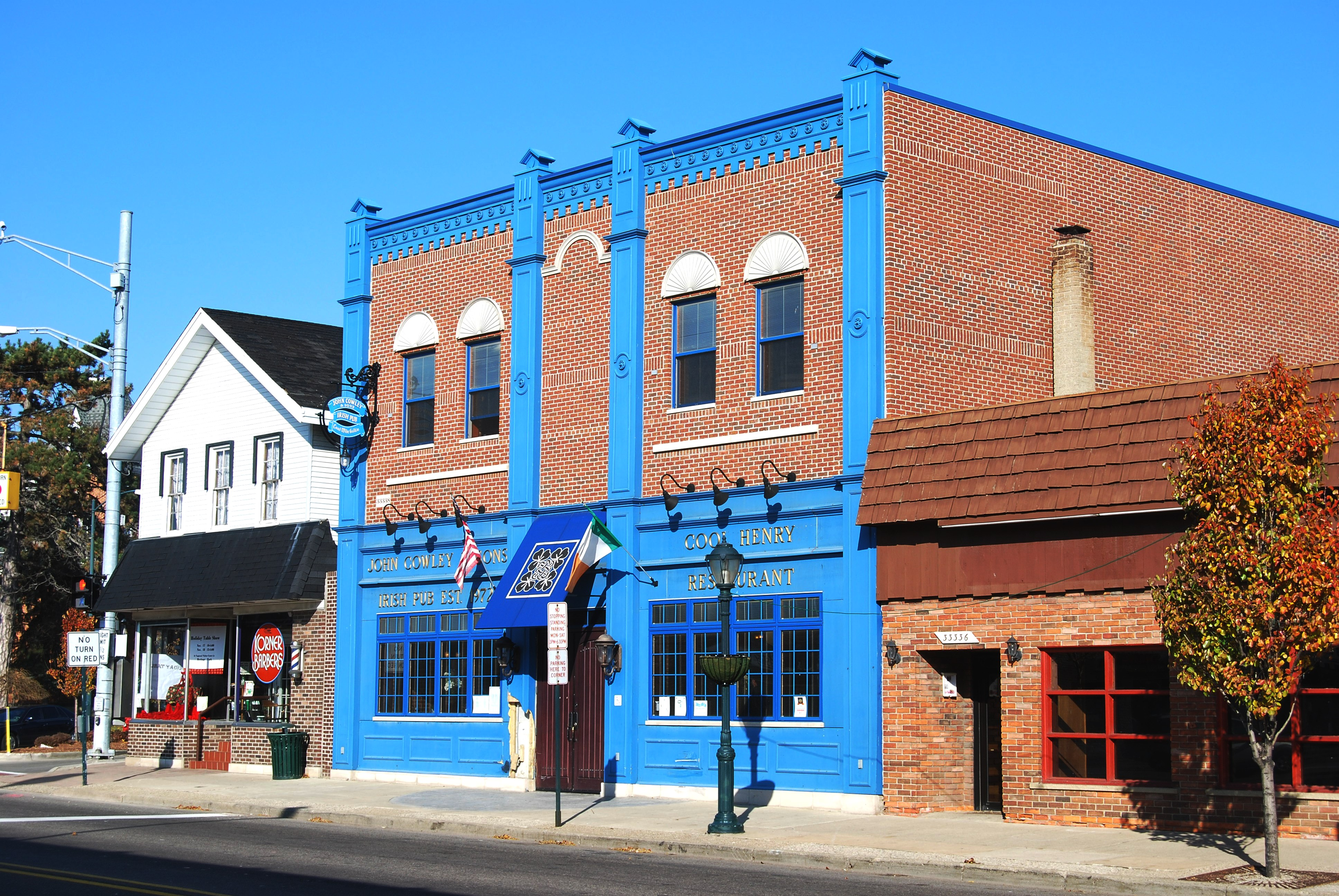 Farmington, Michigan downtown